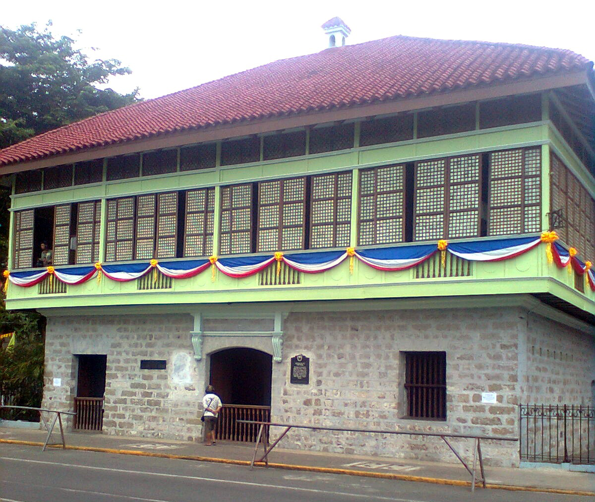 Rizal Shrine is a famous landmark in Calamba City, Philippines because Jose Rizal, Philippines' national hero, was born in this house.